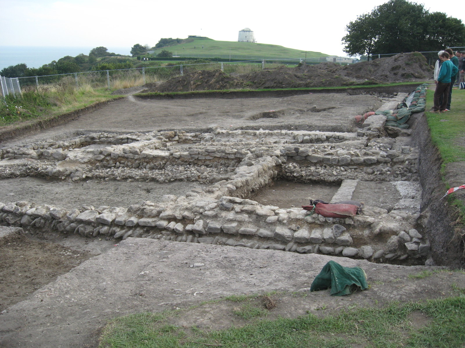 Folkestone Roman Villa, Wear Bay Road